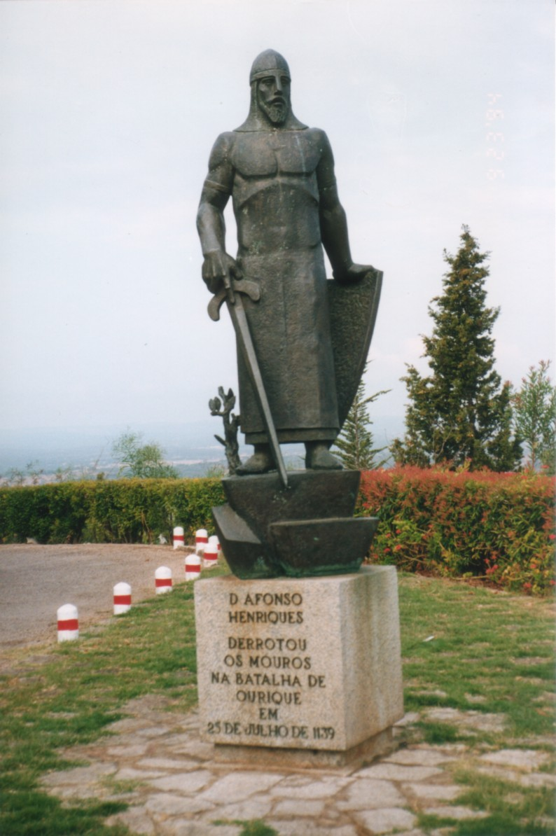 Author Giorces. Portogallo Alfonso Henriques in Alentejo.